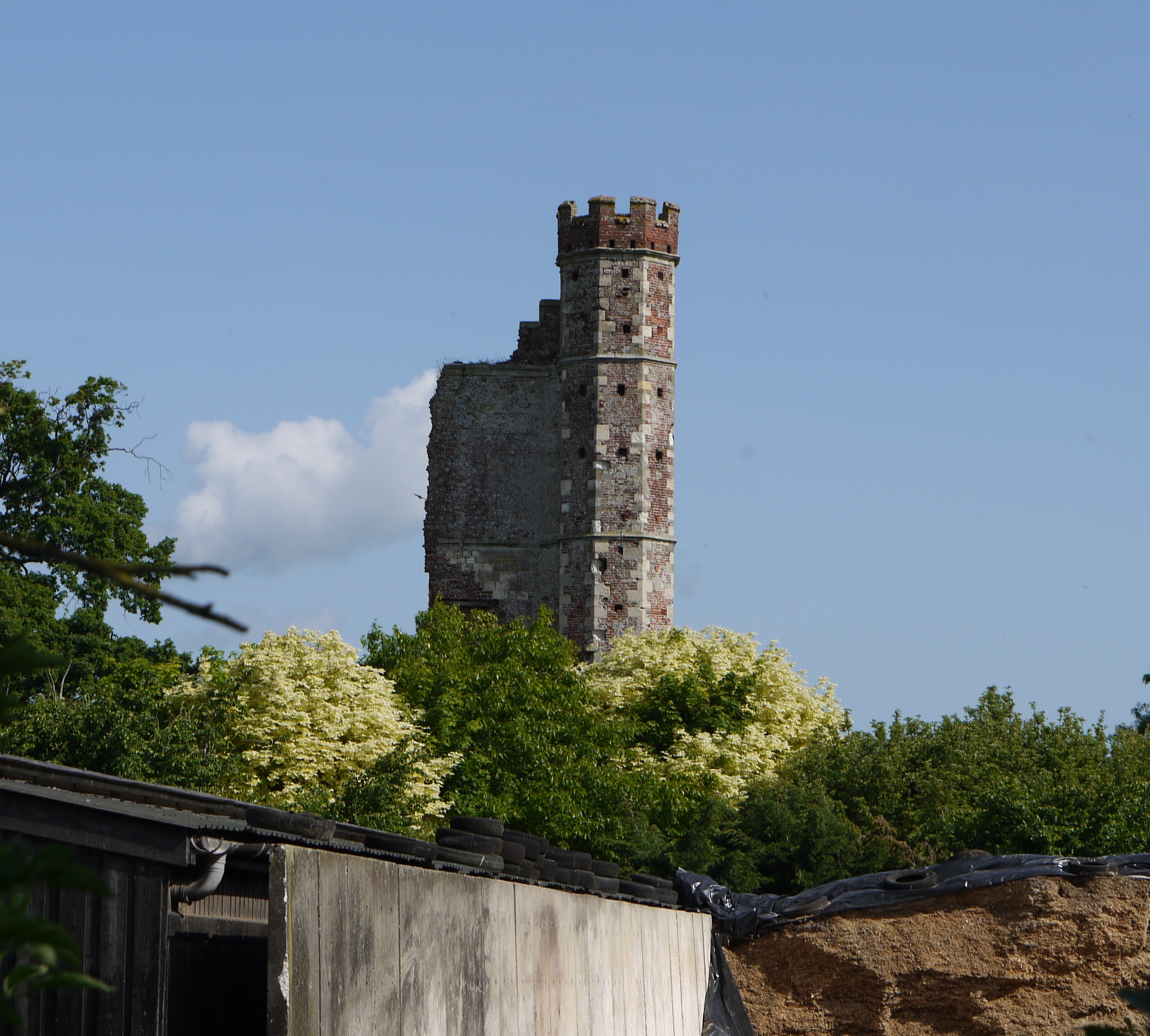 Photo of the tower that is part of the the remains of Warblington castle